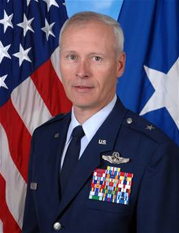 Gen Jonathan D. George official miliary photo